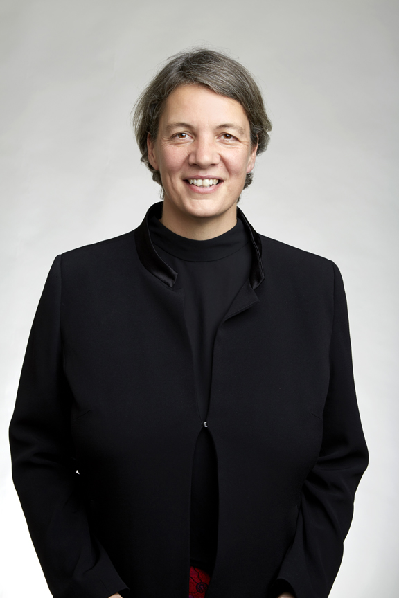 Michelle Yvonne Simmons is a Scientia Professor of Quantum Physics in the Faculty of Science at the University of New South Wales and has twice been an Australian Research Council Federation Fellow and is an Australian Research Council Laureate Fellow Attribution: The Royal Society